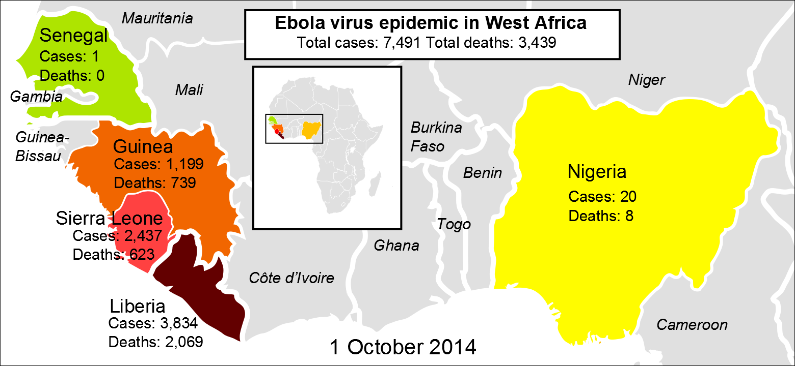 Situation map of the Ebola virus epidemic in West Africa, updated and referenced according to the latest data at the section Ebola virus epidemic in West Africa#Timeline of the outbreak. This image is in raster (.png) format. This version may not be as updated as the vector version) The steps to make an update are as follows: Download the file Open it in a vector graphics editor. If you use Inkscape, it goes as follows: Open the file and double-click on the numbers to be change to edit them. Click the File menu, then Export bitmap. Current settings are "Export area:Page" and "pixels at 300dpi" Click the upload page: [1], and upload the new image. Preferably, also update the File:2014 ebola virus epidemic in West Africa.svg version as well.